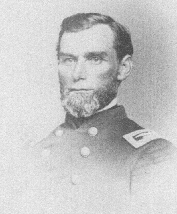 Harrison G. O. Blake, 166th Ohio Infantry during American Civil War.